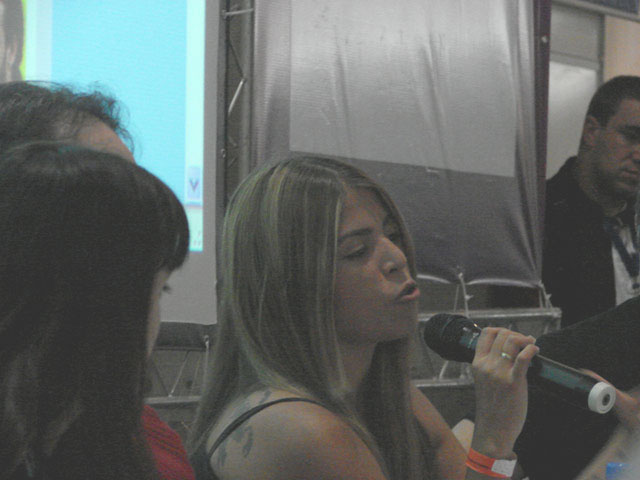 Bruna Surfistinha at Campus Party 2009.